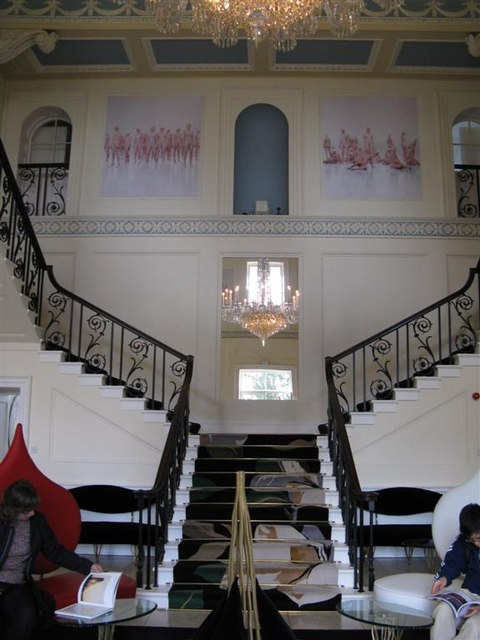 Staircase in Duddingston House. The main staircase from the entrance hall, beautifully and interestingly restored, with contemporary furnishings and artworks. Note the chandelier 1507807 in the mirror.